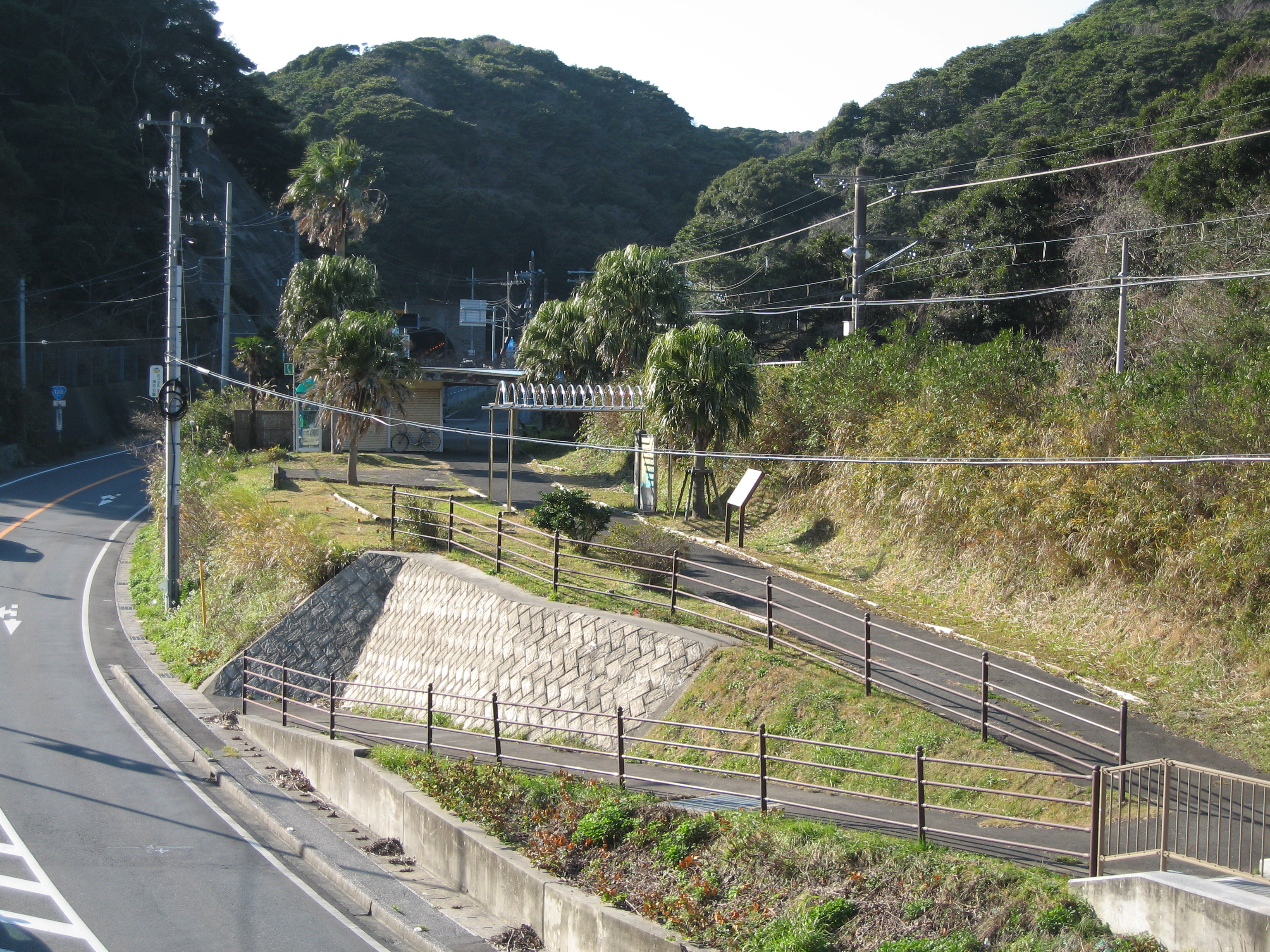 Namegawa Island Station, Sotobo Line, Japan, 行川アイランド駅（歩道橋より駅を望む）